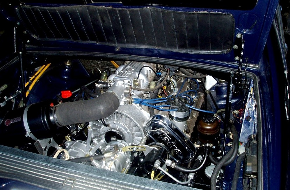 Air-cooled engine Tatra 613-4 Mi, 2xDOHC V8, 3495ccm, 200HP 5750/min, sequential fuel injection, ECU GEMS